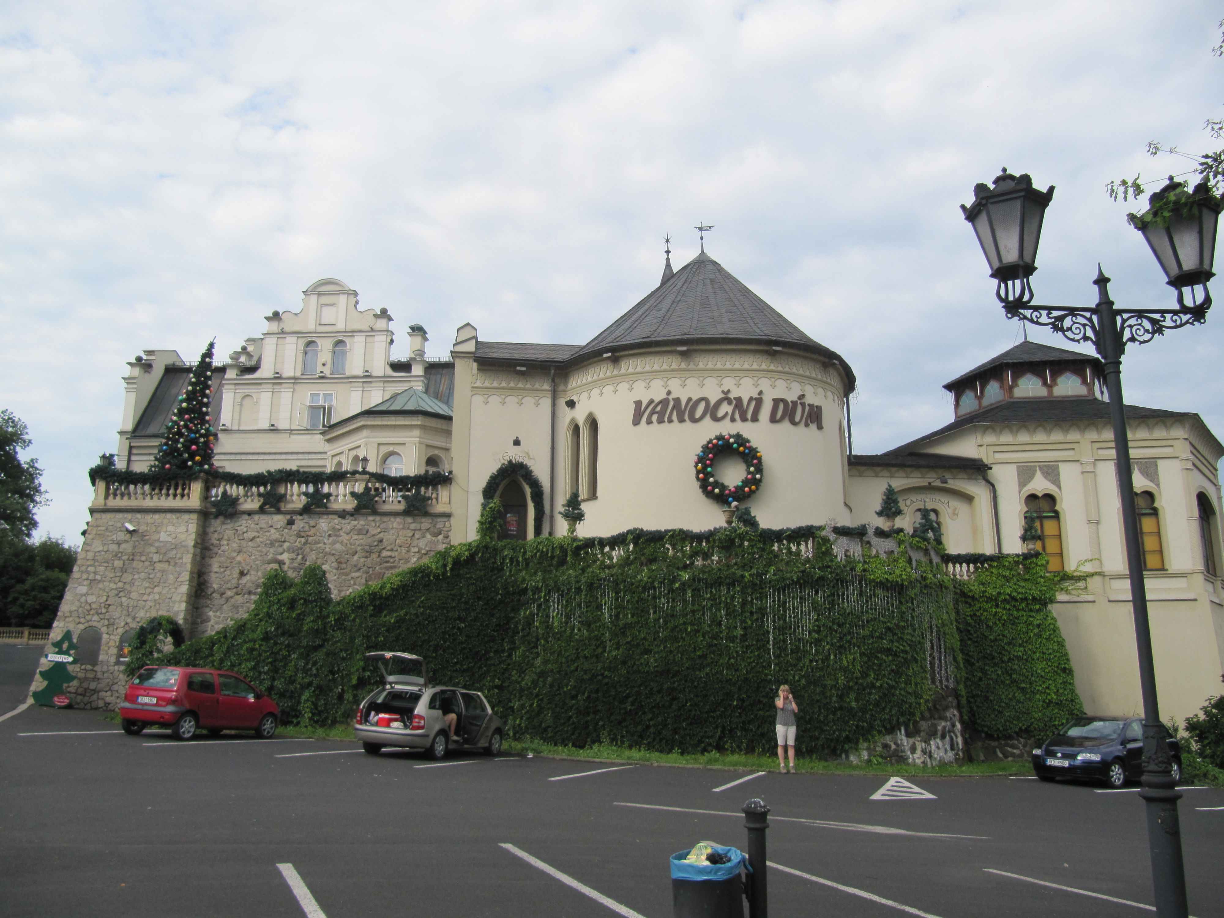 Karlovy Vary, Czech Republic. Part Doubí.